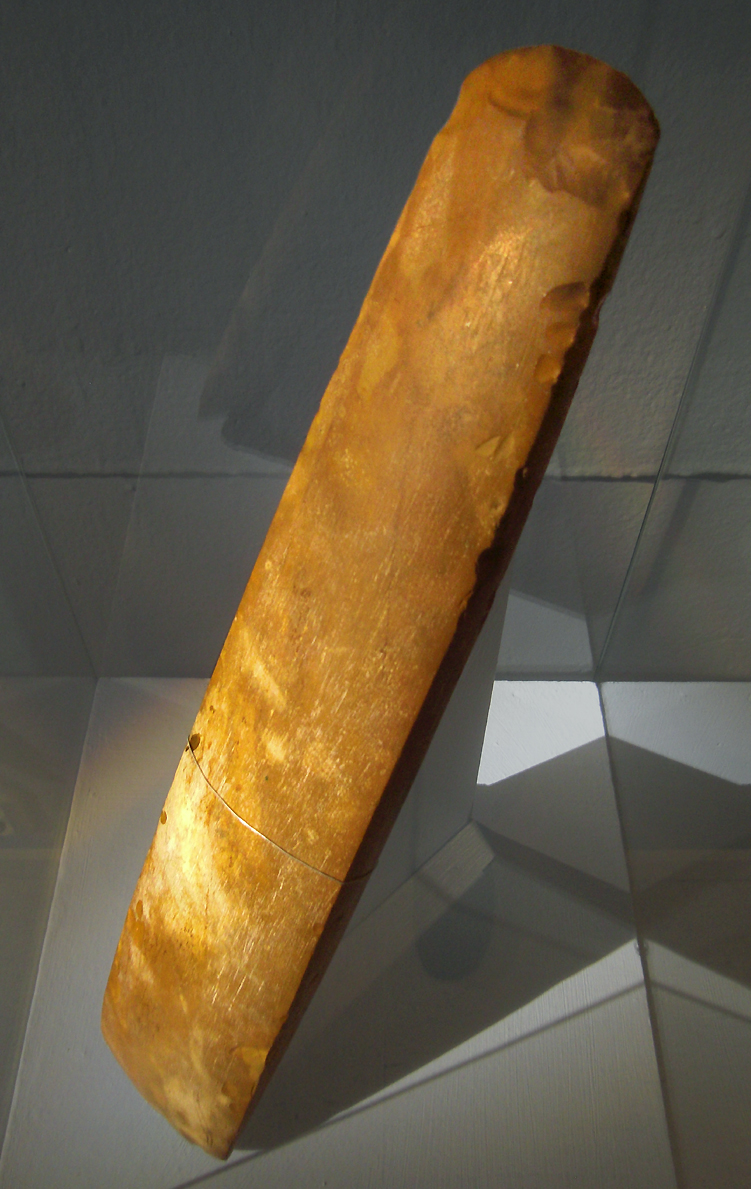 Neolithic thinbutted axe of flint from Barnegården in Segerstad parish, Gudhem hundred, Falköping municipality, former Skaraborg county, Västergötland, Sweden. The axe has a length of 45.8 cm and belongs to the Funnelbeaker Culture of the early and middle Neolithic. It is probably the longest thinbutted axe found in Sweden. The axe was given to Falbygdens museum in Falköping in the year 1933. Its identification number is 674:1 (2M16-F0674-01). The photo was taken at the Hallonflickan exhibition the summer 2011.